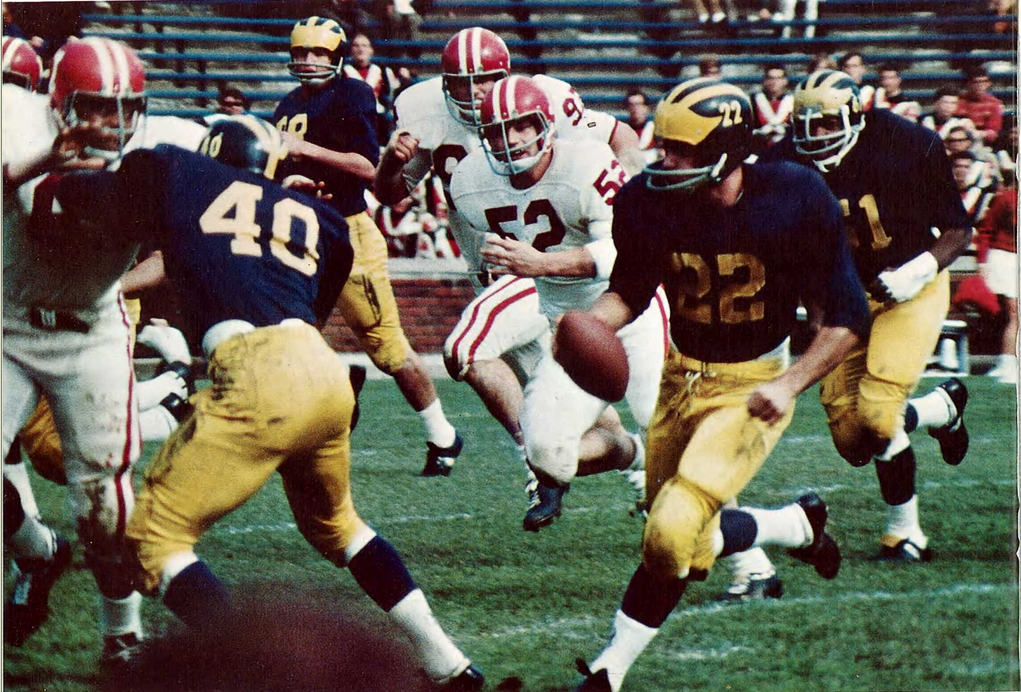 Photograph of Dennis Brown (No. 22)